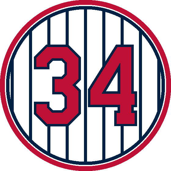 A #34 representing Kirby Puckett's retired number circle at Target Field.